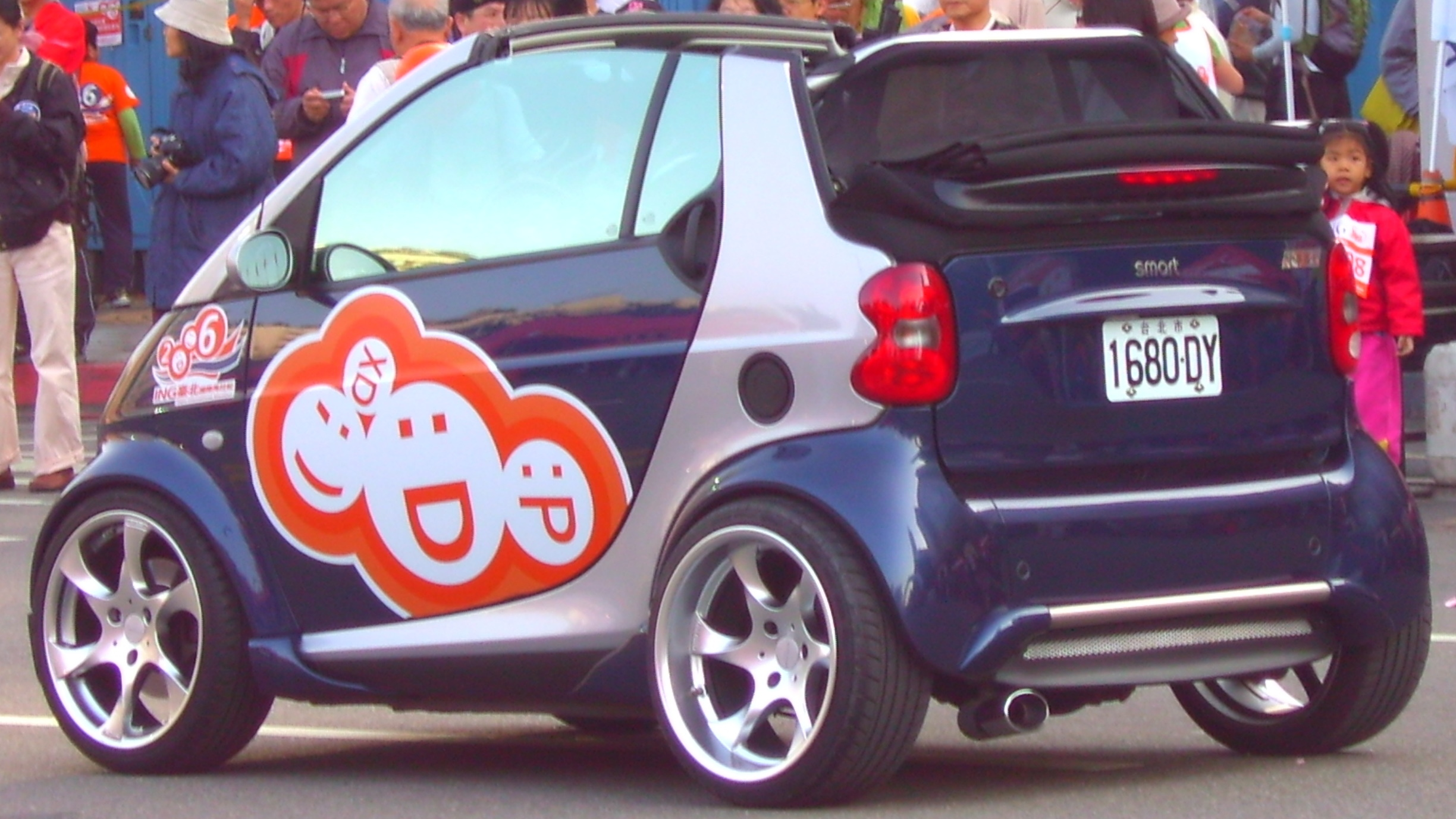 Fun Run Group Guidance Car at 2006 ING the 10th Taipei International Marathon.中文（台灣）: 2006 ING第十屆台北國際馬拉松比賽中，Fun Run組的前導車。